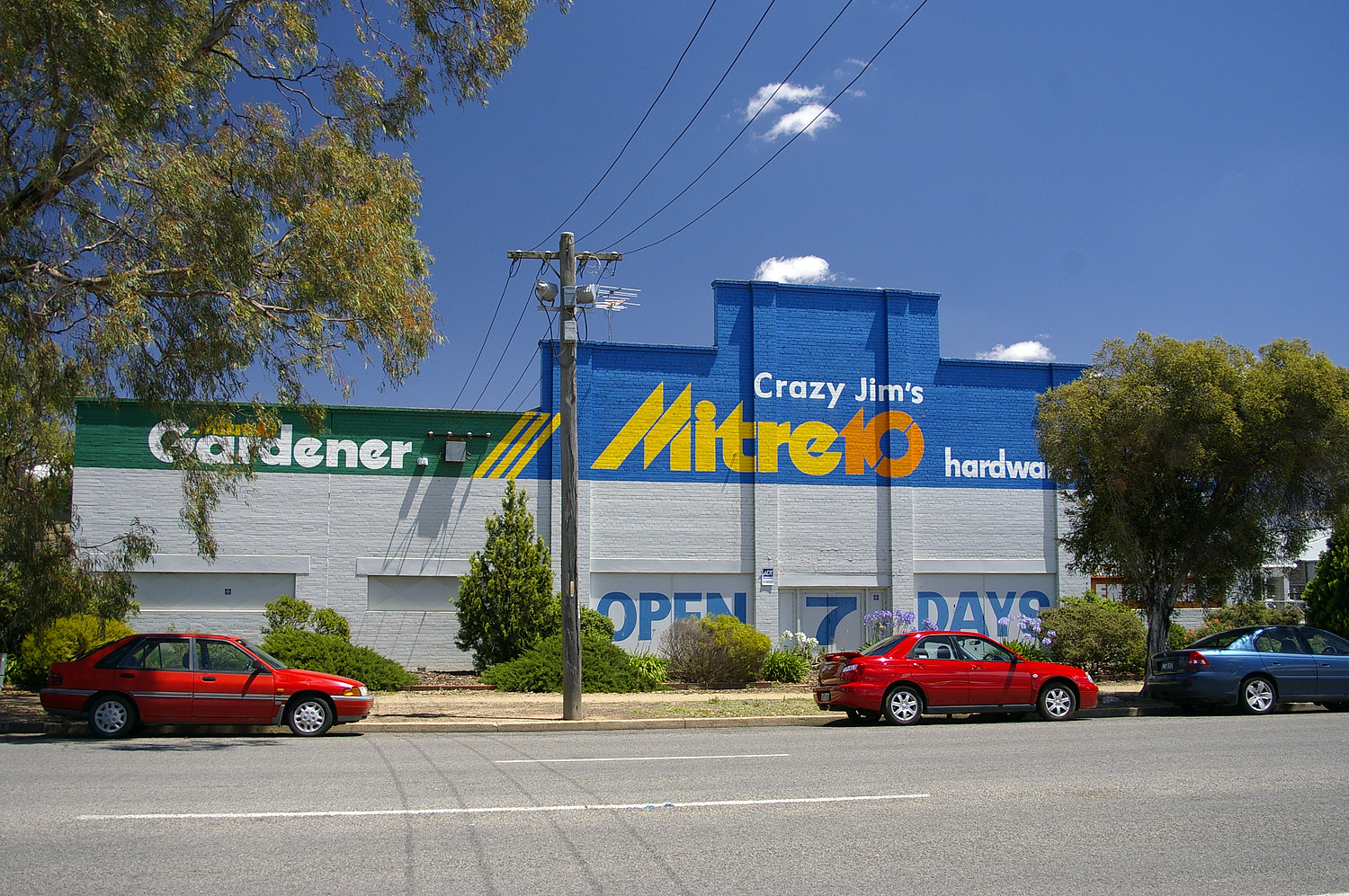 Crazy Jim's Mitre 10.